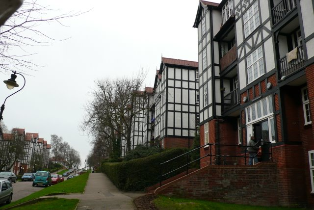 Holly Lodge Estate This estate of mock tudor houses is built on the site of Holly Lodge, the former grand residence of the Burdett-Coutts family. It is situated opposite Highgate cemetery.